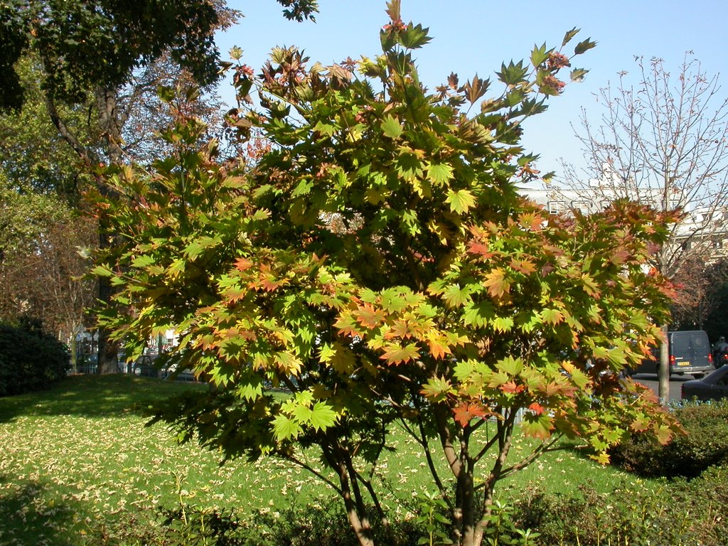 Acer shirasawanum shape